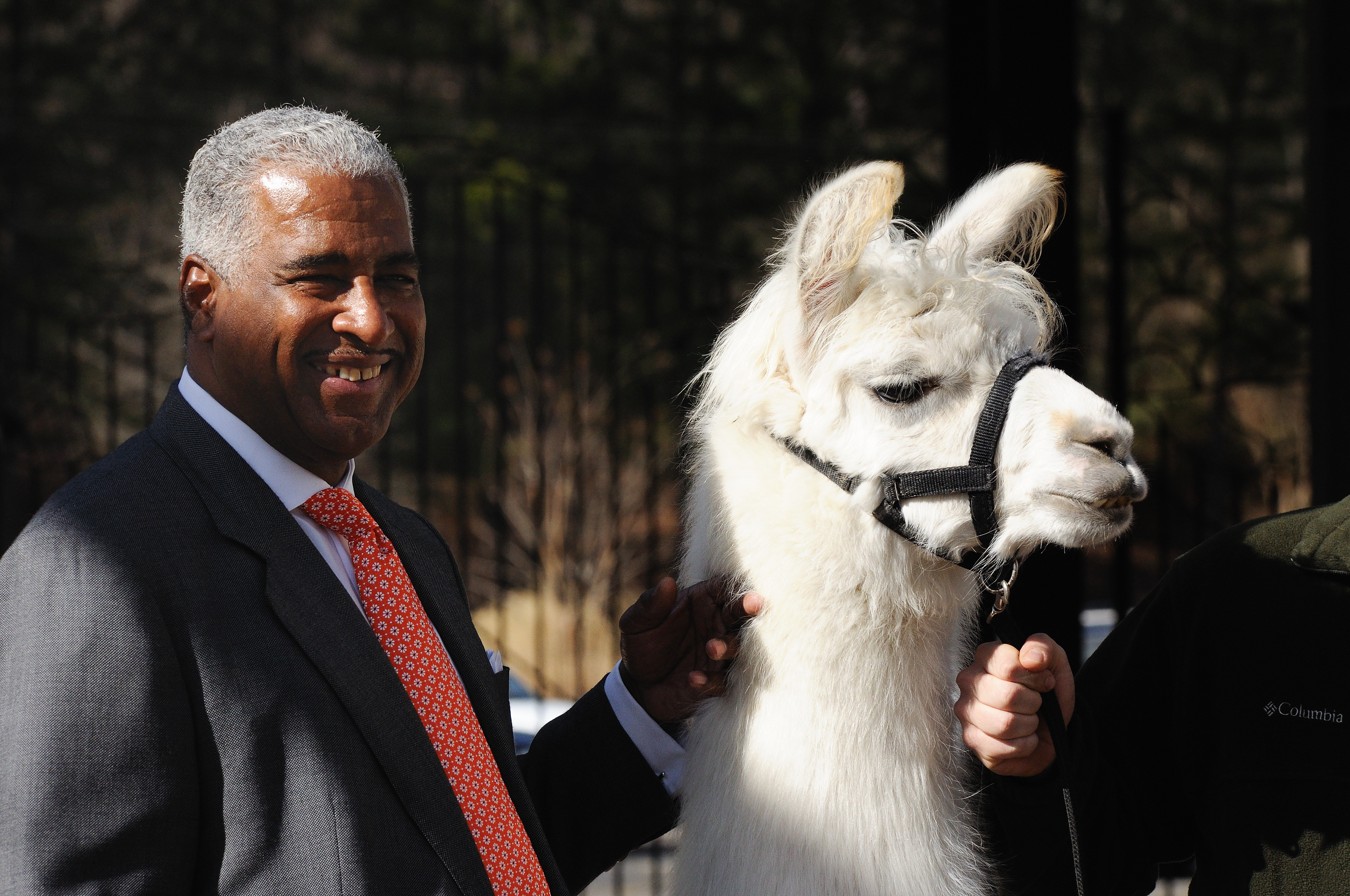 Photograph of Birmingham, Alabama mayor William A. Bell with Captain, a llama.